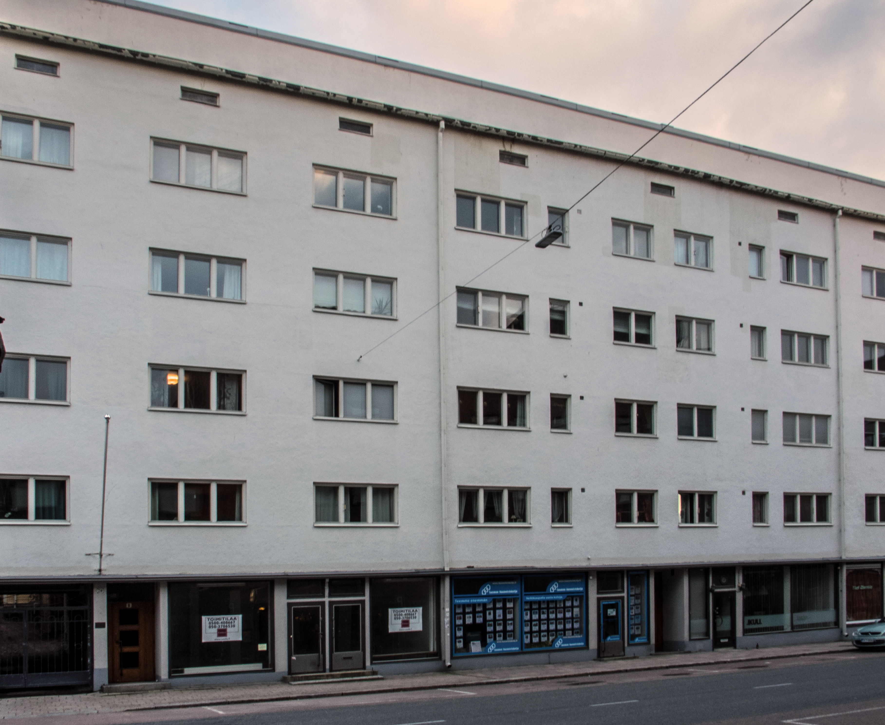 Läntinen Pitkäkatu, near Humalistonkatu